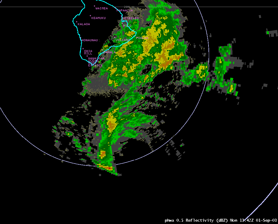 Tropical Storm Jimena passing about 110 miles to the south of Hawaii, as seen on weather radar at 3:45 a.m. Hawaiian Standard Time, September 1, 2003.